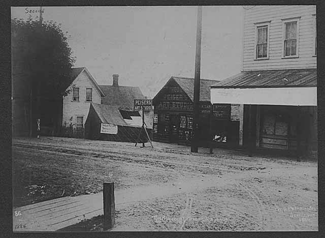 Caption on image: The Pioneer of Second Avenue, cor. 2nd and Marion Sts., Seattle, W.T., 1884 . Peiser 86 Subjects (LCTGM): Peiser, Theodore E.--Homes & haunts--Washington (State)--Seattle; Photographic studios--Washington (State)--Seattle